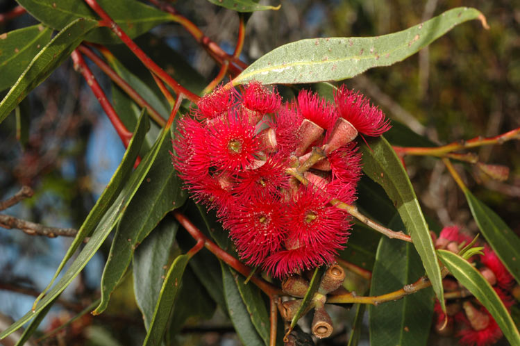 Flowers of Eucalyptus lansdowneana at the Peter Francis Points Arboretum, Colerain, Victoria